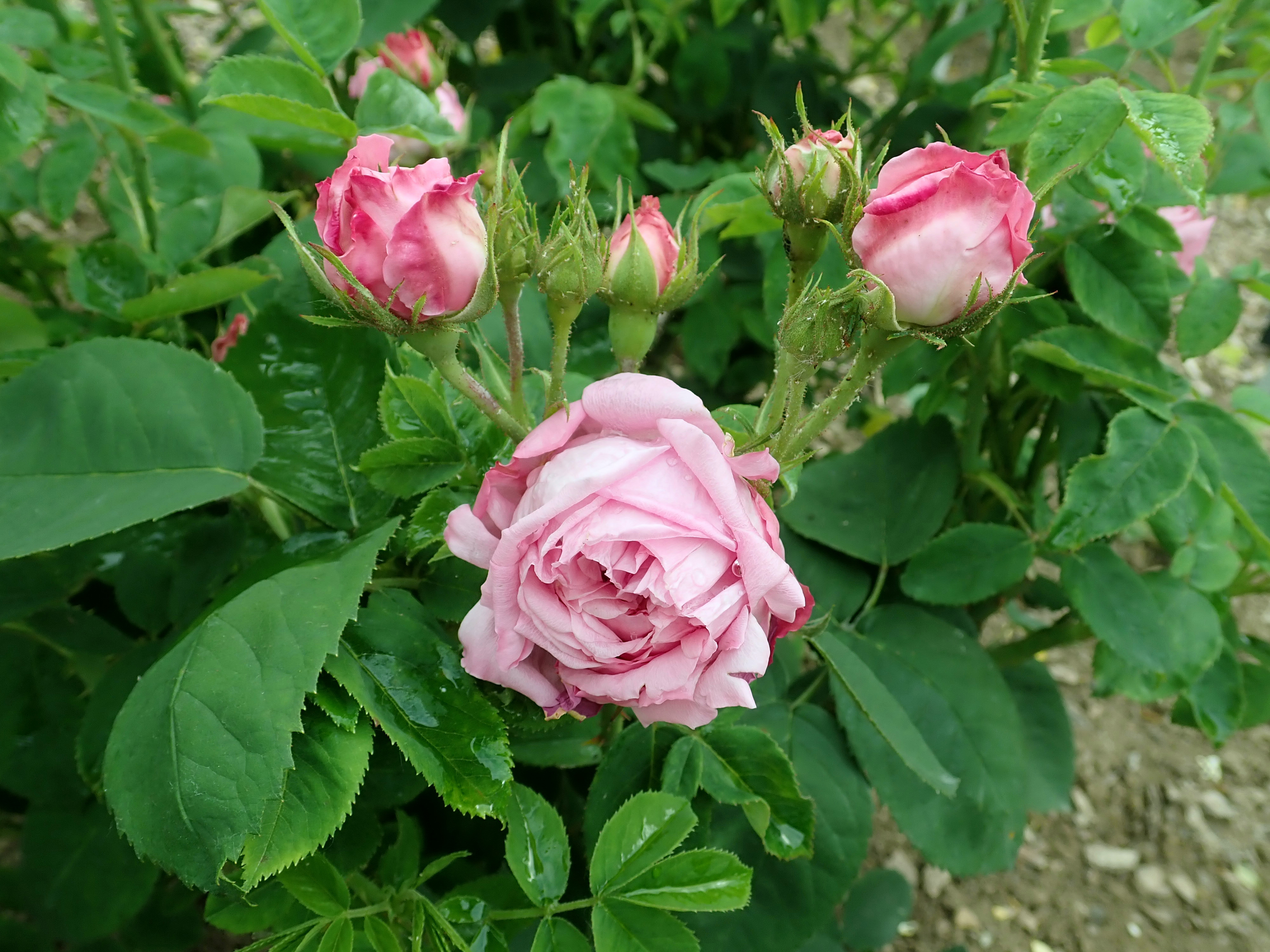 Rosa ‘Victor Verdier’ (F. Lacharme, 1859), Europa-Rosarium Sangerhausen.